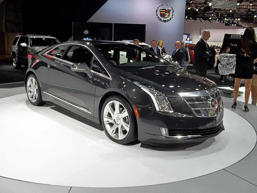 2014 Cadillac ELR coupe at the 2013 New York Auto Show